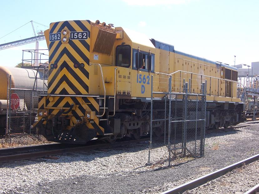 D 1562 Bunbury Port Photograph by Daryle Phillips